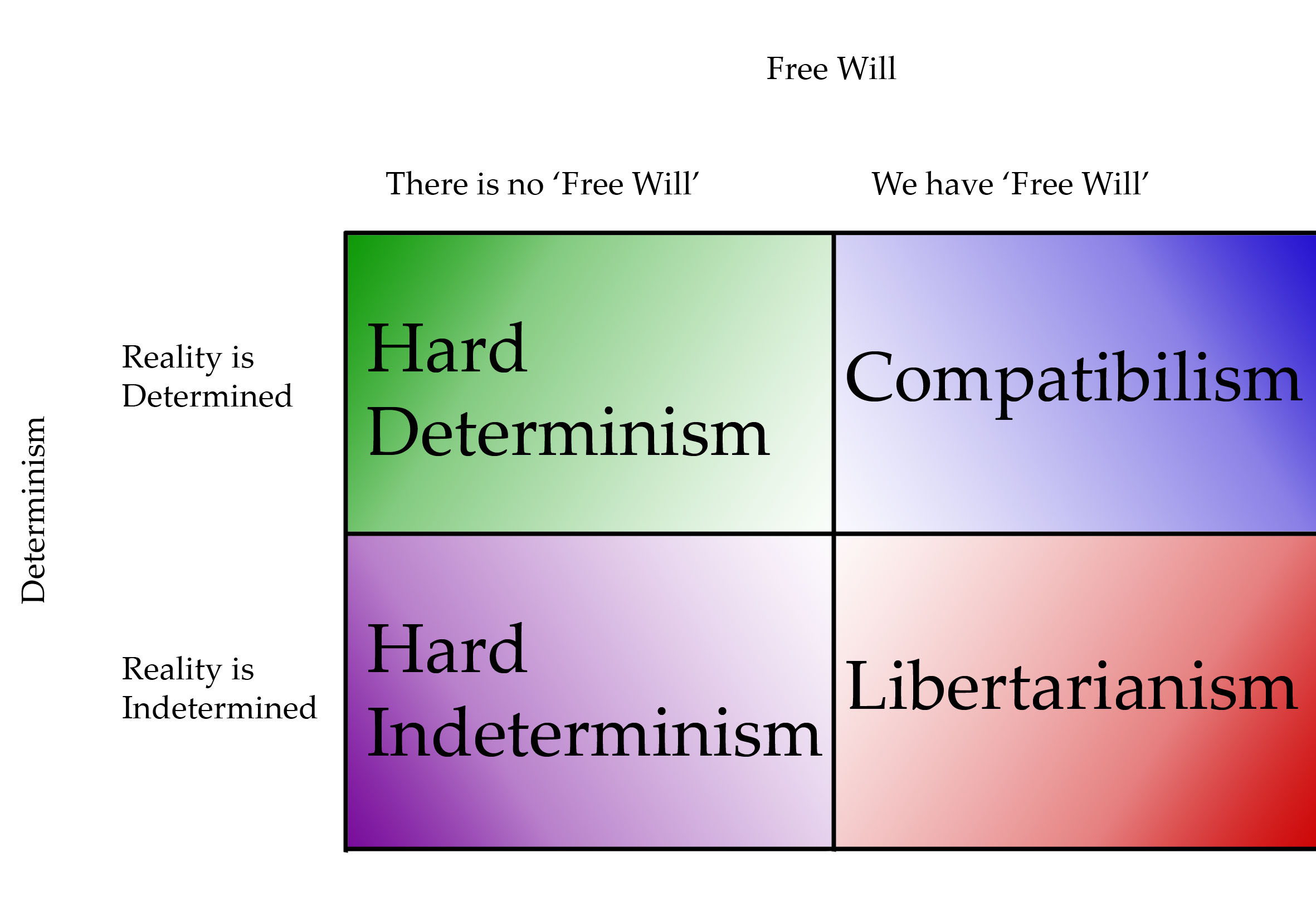 A table comparing the views one can hold on both Determinism and Free Will.